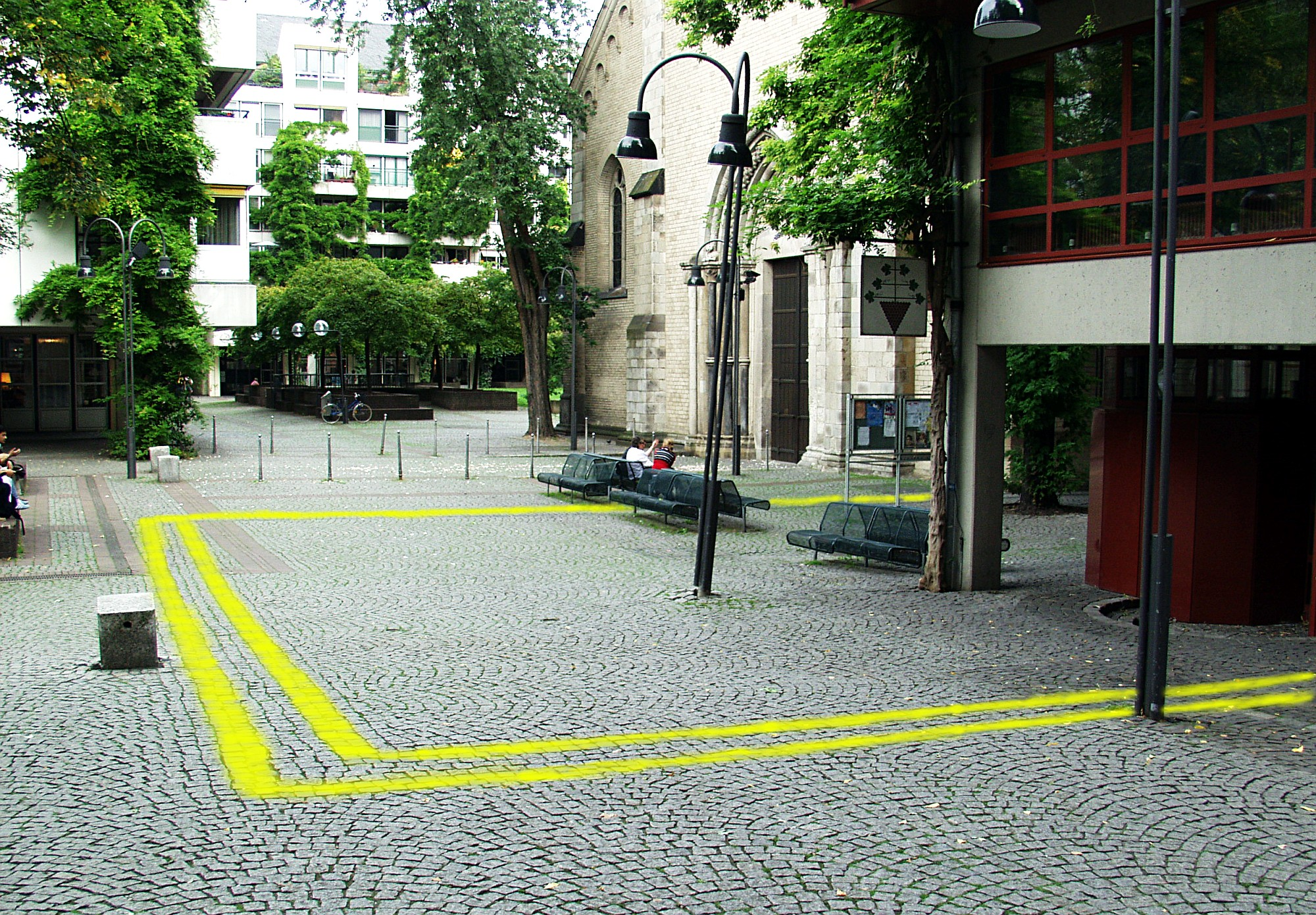 Groß St. Martin, Cologne - west porch, outlines of the former church St. Brigiden digitally highlighted